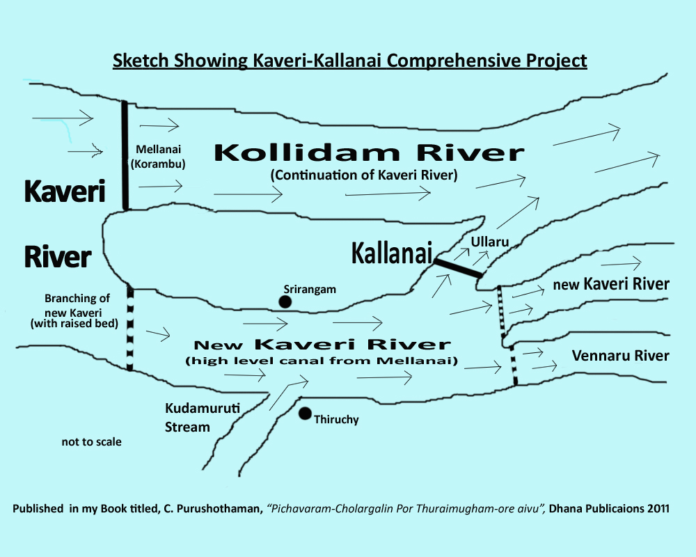 According to the illustration of the present “Kaveri-Kallanai Project”, as is, the Original River Kaveri that is branched off at Mellanai from the present Kollidam River, is only a high level canal, now being called as River Kaveri. Present “Kollidam River”, from Mellanai, which in reality is the continuation of the “Original River Kaveri”, since it possesses entire characteristics of a naturally formed River. This New Kaveri River water is carried up to a point where it is further branched off into “new Kaveri River” and “Vennaru River”. However, On the immediate upstream of this diversion and on the left bank of the “new Kaveri River”, Kallanai was constructed by King Karikalan in order to drain the excessive flood water during the monsoon season over its surplus weir. The water thus drained is subsequently merged back to the “present Kollidam River” (which in fact should have been the “Original Kaveri River”), through an another canal called “Ullaru”.